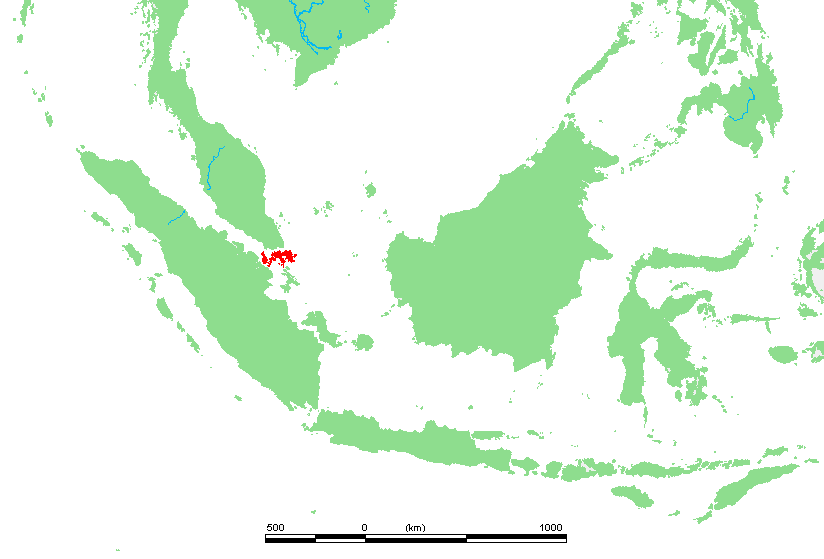 Location of Riau Archipelago, Indonesia